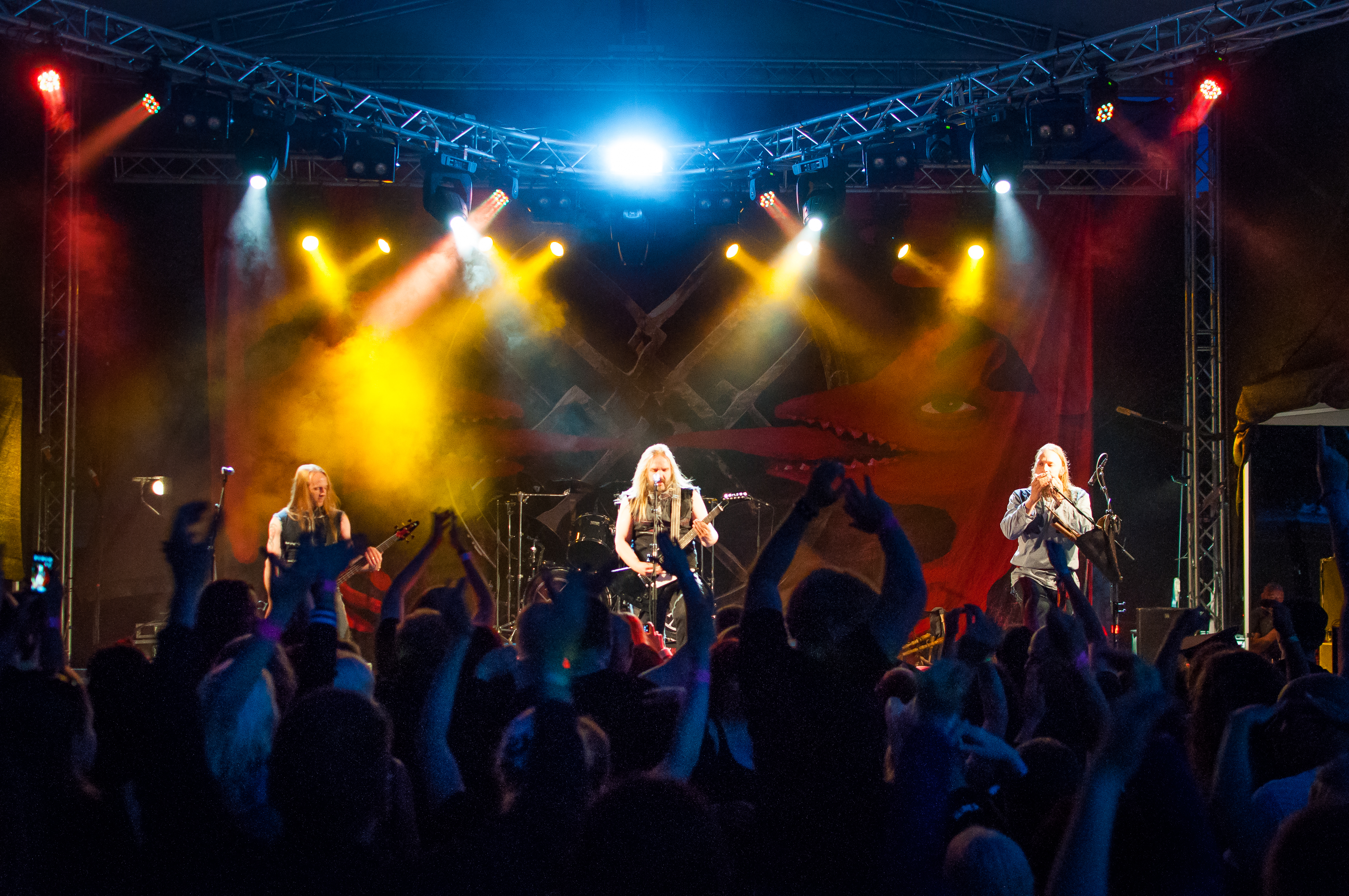 Estonian metal band Metsatöll performing at the 2014 Rakuuna Rock festival in Lappeenranta, Finland.